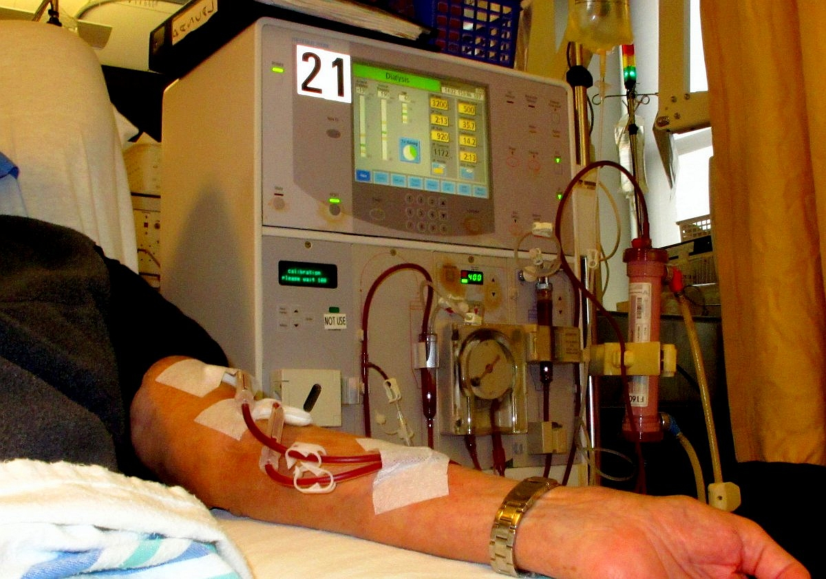 Arm of patient receiving dialysis.